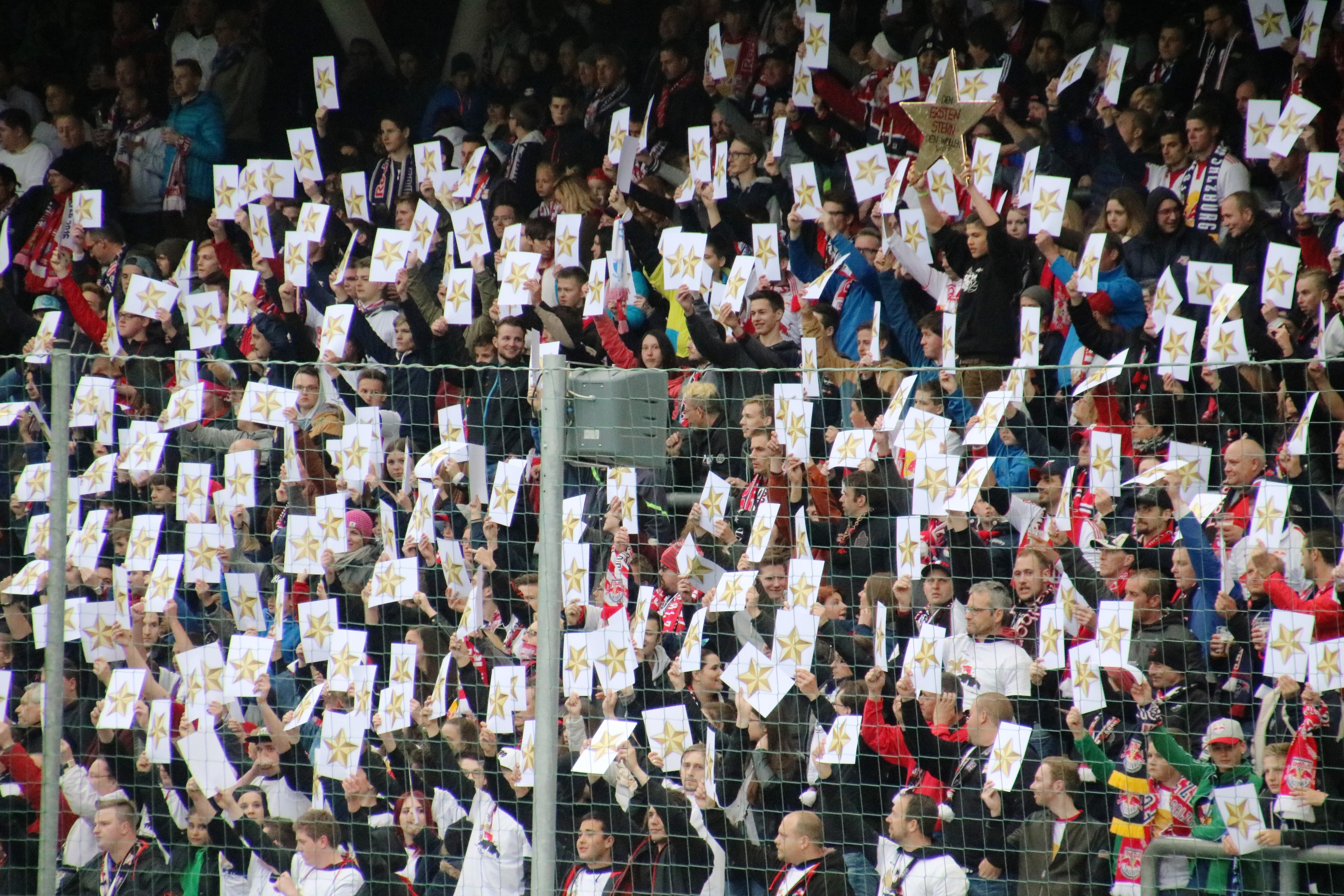 Austrian Bundesliga league match